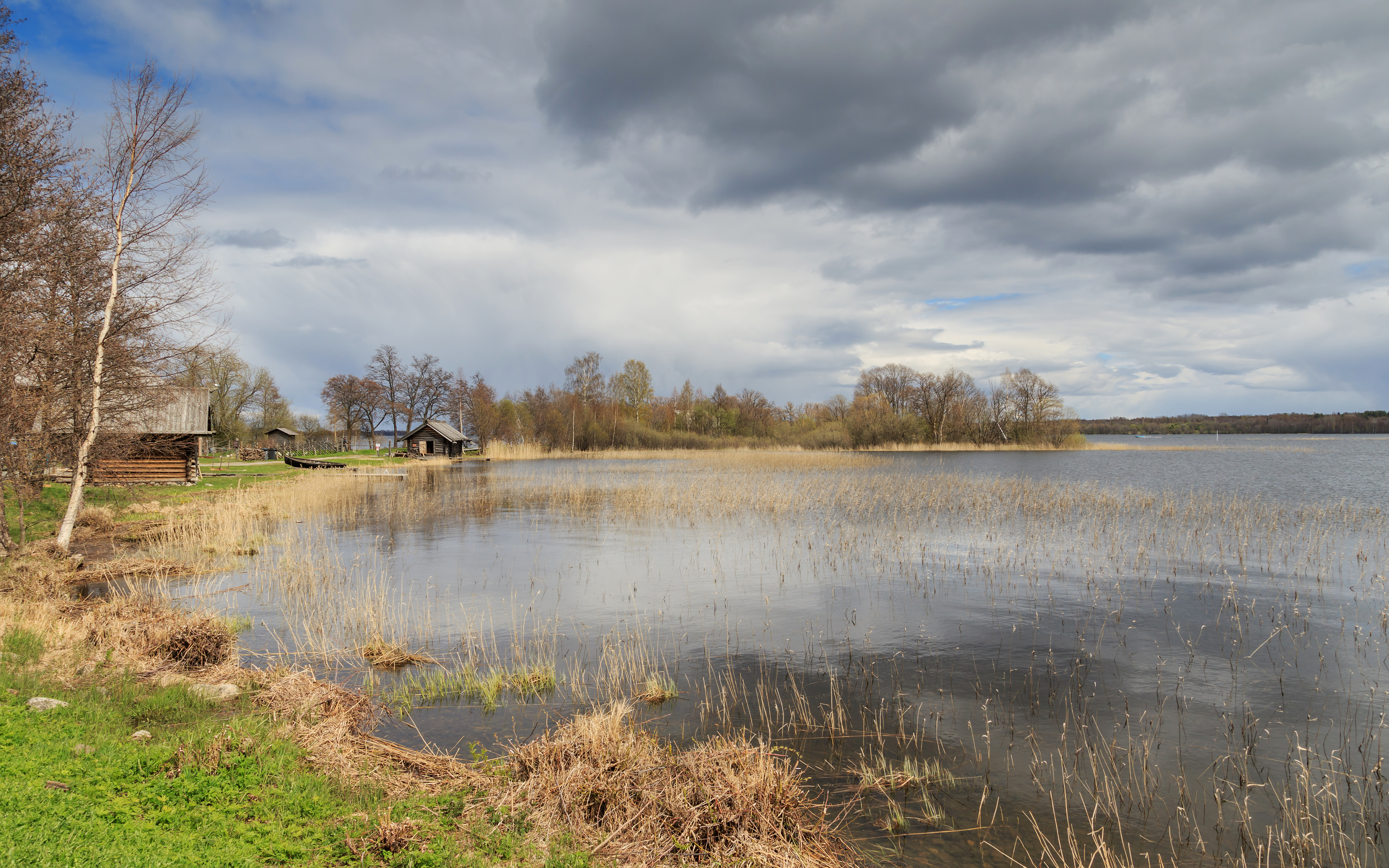 Lake Onega bay at Cape Navolok on Kizhi Island, Republic of Karelia (Russia).